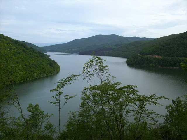 The Batllave Lake in the summer